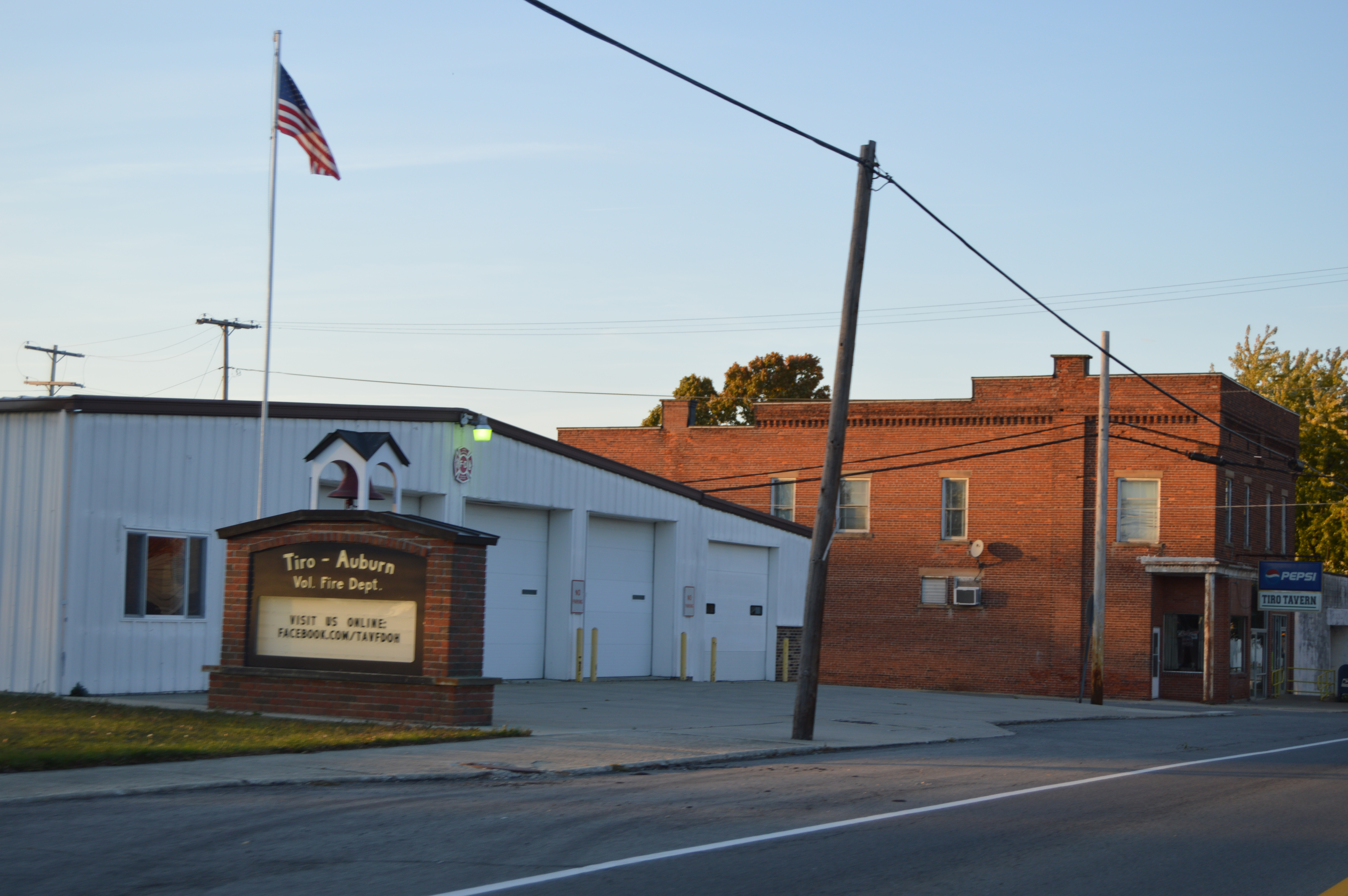 Two community buildings on the western side of Main Street (State Route 39) at the Hilborn Avenue intersection in Tiro, Ohio, United States. The fire station sits in the foreground, while the farther building houses the local bar and the village's post office.